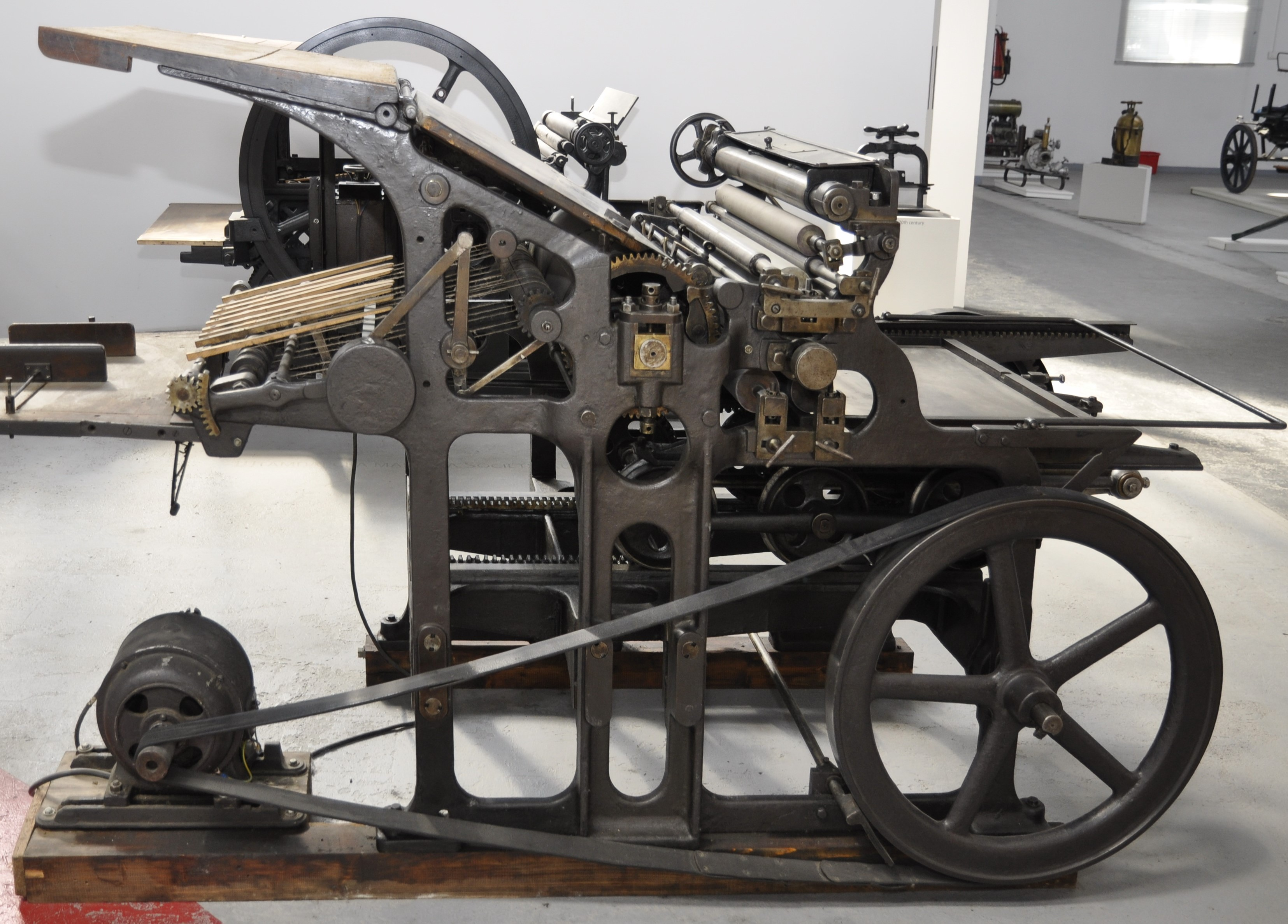 Josef Anger & Sohne printing press, around 1880.